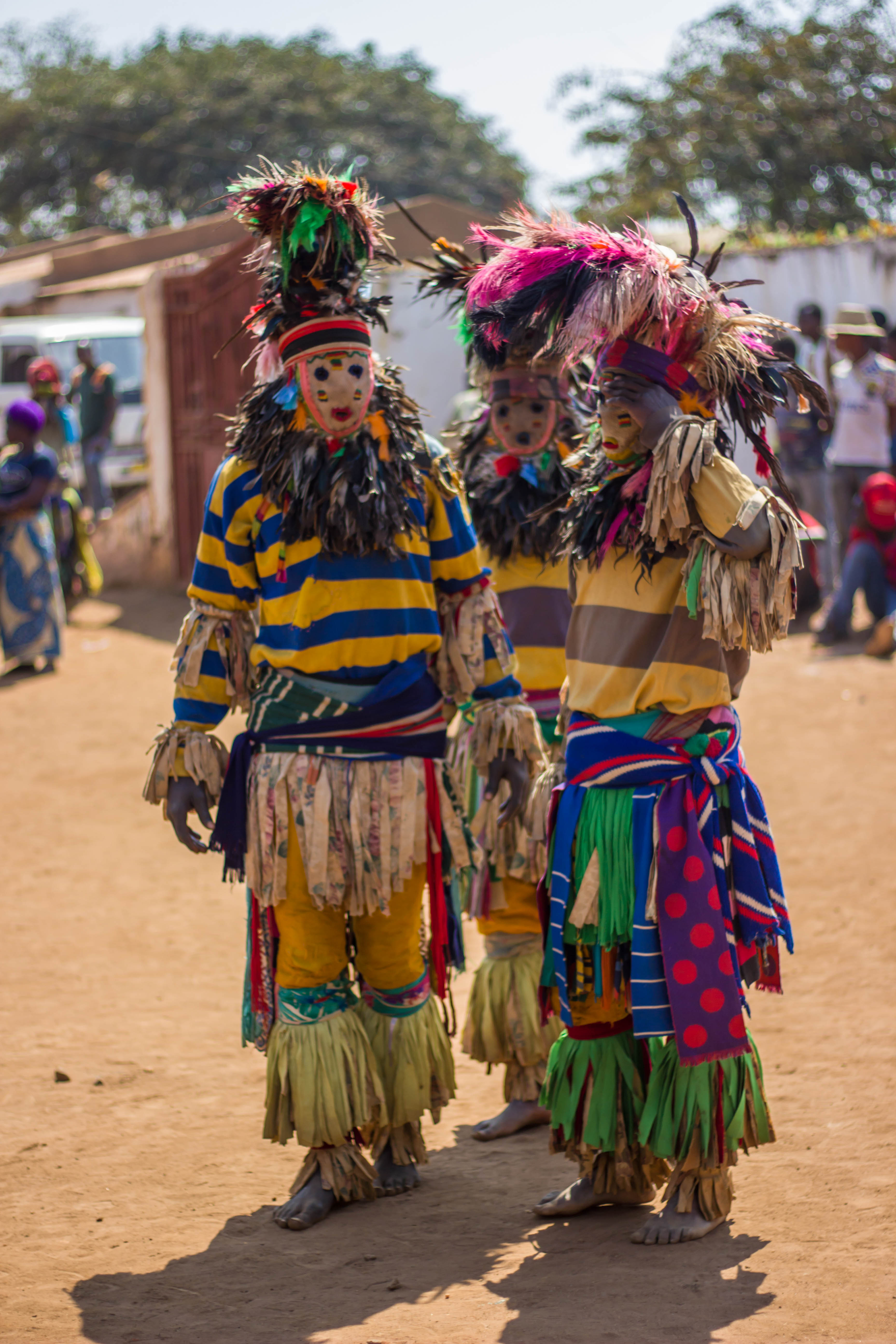 These is a type of traditional dance by a malawian tribe called chewa. The only person allowed to wear such is the only person who has gone through the initiation ceremony. And they are called Zinyau and the dance is called Gule Wamkulu This is an image of music and dance from Malawi